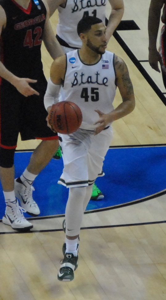 Denzel Valentine heads to the free throw line for the Spartans